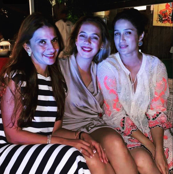 Hazelsagarikafatima